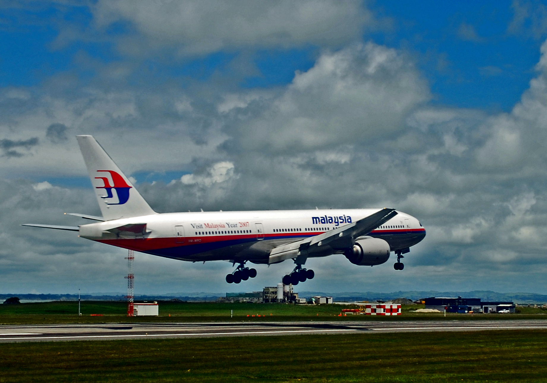 A Malaysia Airlines Boeing 777 landing at Auckland Airport.